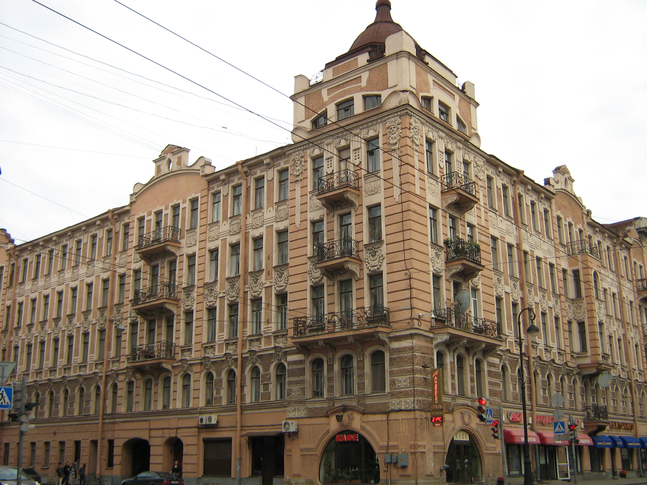 Kamennoostrovsky av., 59, Saint-Petersburg, Russia (architect P. M. Mulkhanov, 1908–1909).